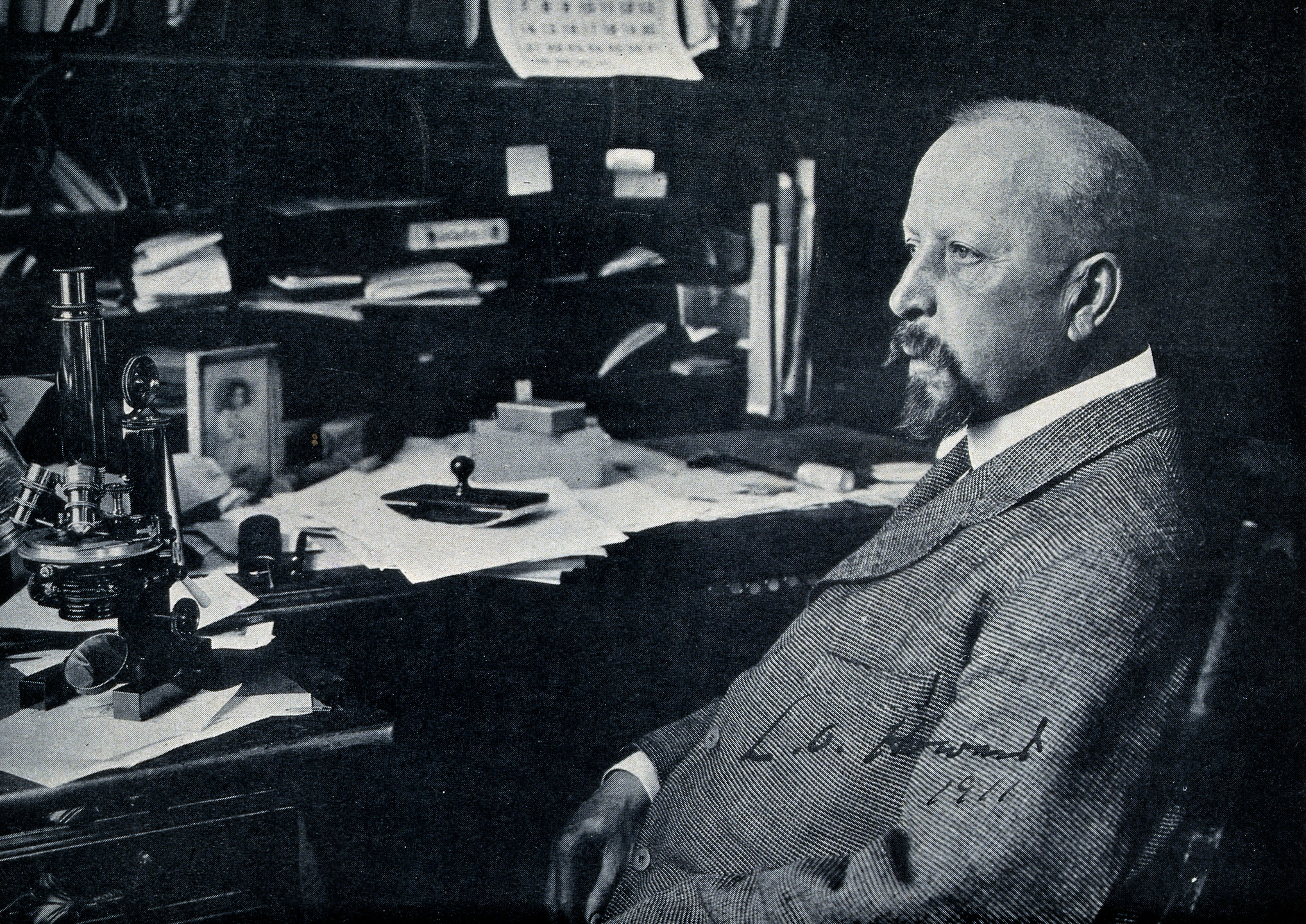 Leland Ossian Howard. Photomechanical print, 1911. Iconographic Collections Keywords: portrait prints; Leland Ossian Howard; howard, leland ossian, 1857-19